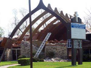 Church damaged in Beaumont Texas during Hurricane Rita. Photographer: Steve Buser 409-838-6800